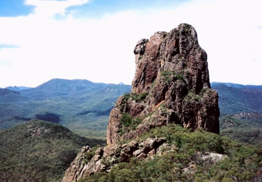 The volcanic remnant known as Crater Bluff in the Warrumbungle mountain range.